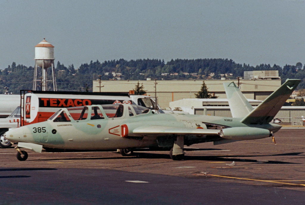 Fouga CM170R Magister N385F ex French Air Force, privately operated from Boeing Field, Seattle, WA, in 1998